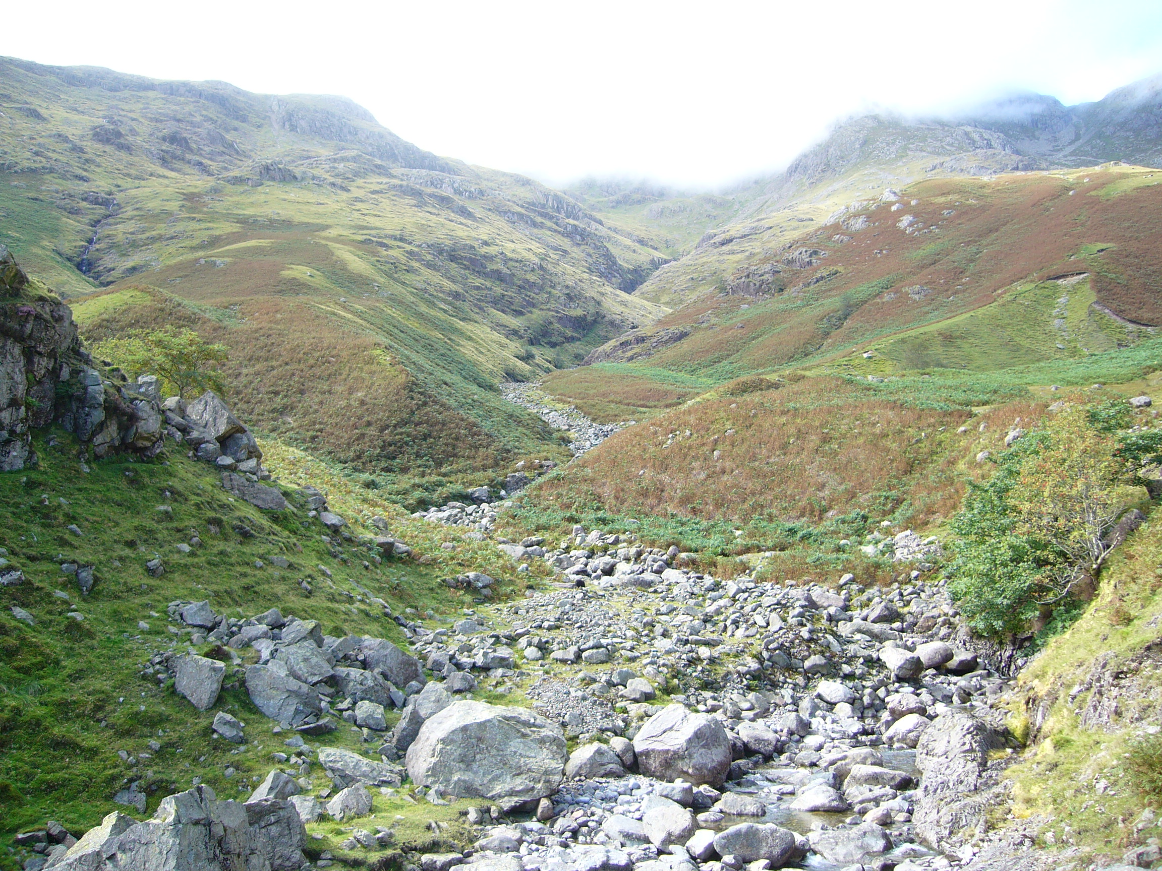 Interlocking spurs seen in the upper course of Oxendale Beck, tributary to the River Brathay, Lake District, Cumbria, England